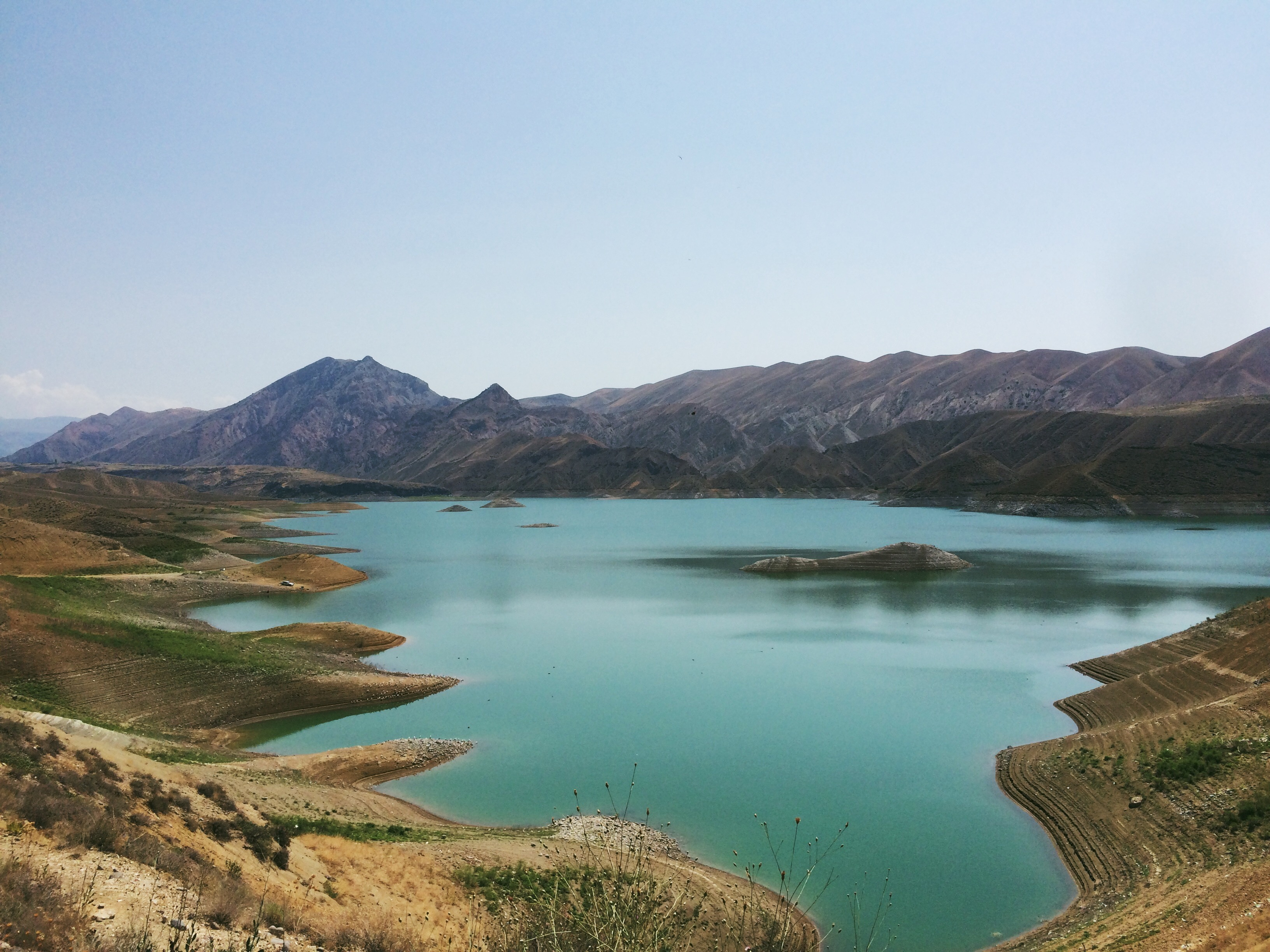 Azat Reservoir, Ararat Province, Armenia